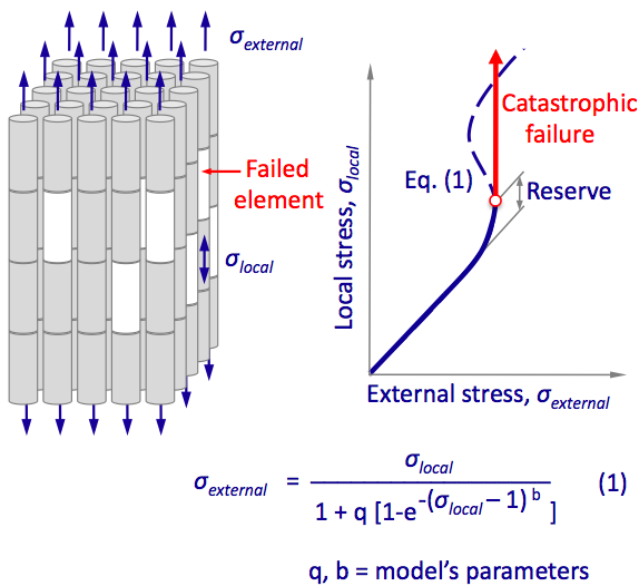 The catastrophe failure model predicts reserve ability of the complex system and the critical load. The structural fracture mechanics model is similar to the cusp catastrophe model.